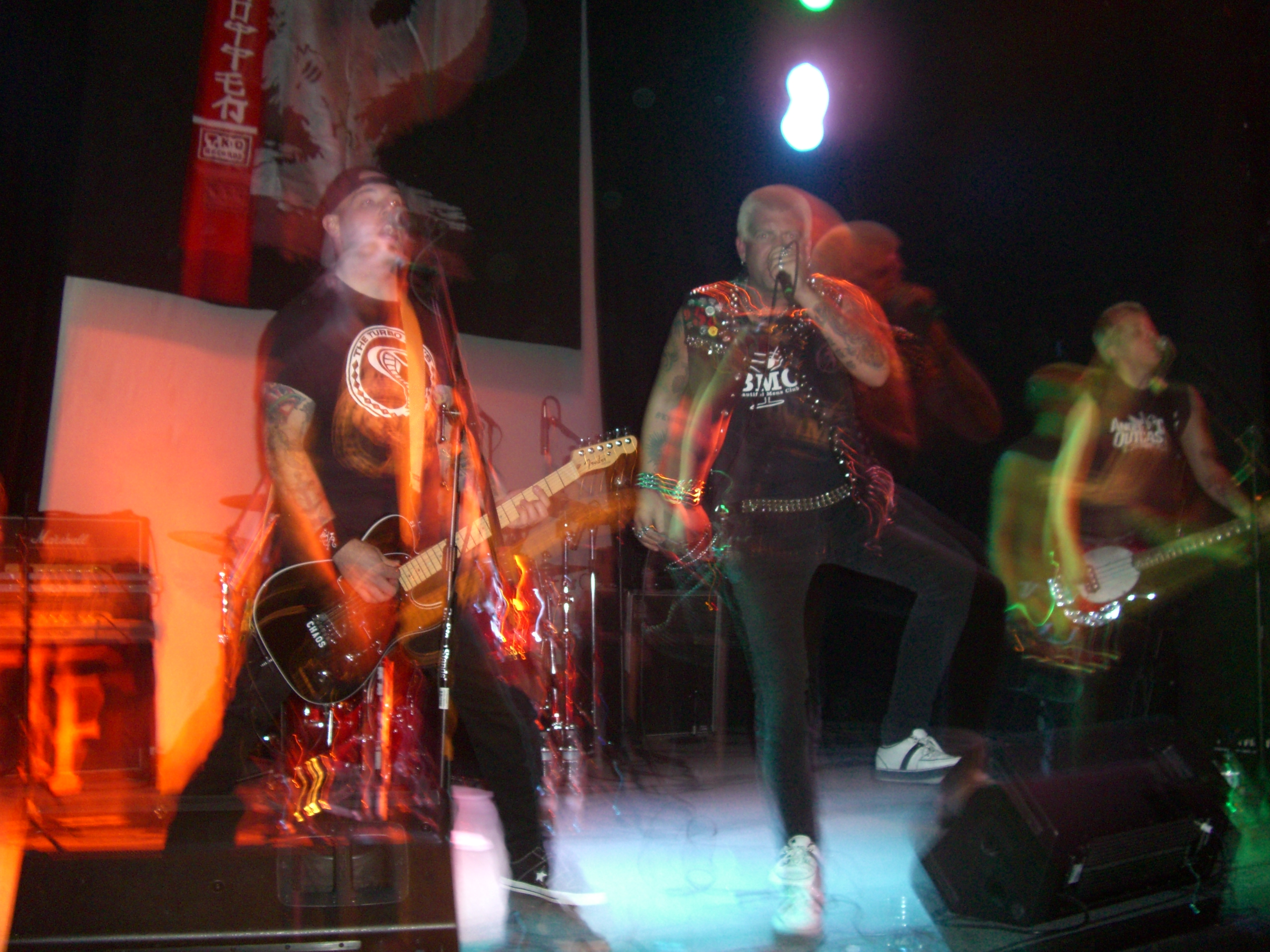 The Forgotten live at the Uptown, Oakland CA in 2008